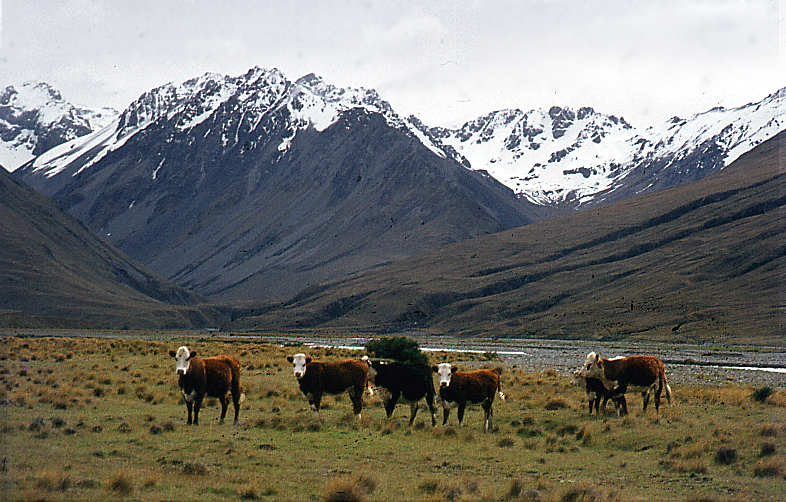 Hereford cattle grazing in the Macaulay River valley, South Canterbury, New Zealand. The Southern Alps are seen in the background.